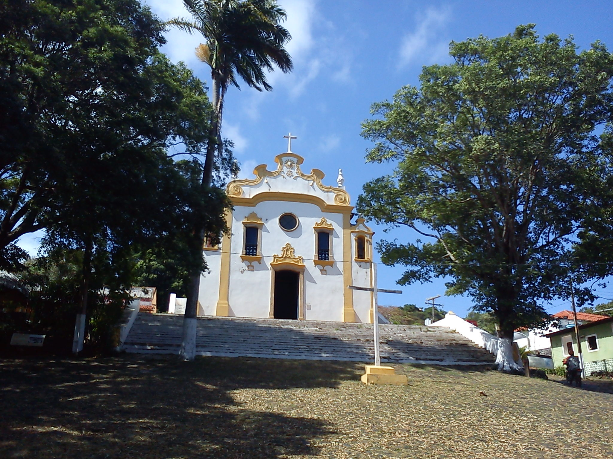 Nossa Senhora dos Remédios Church - Fernando de Noronha - Pernambuco - Brazil